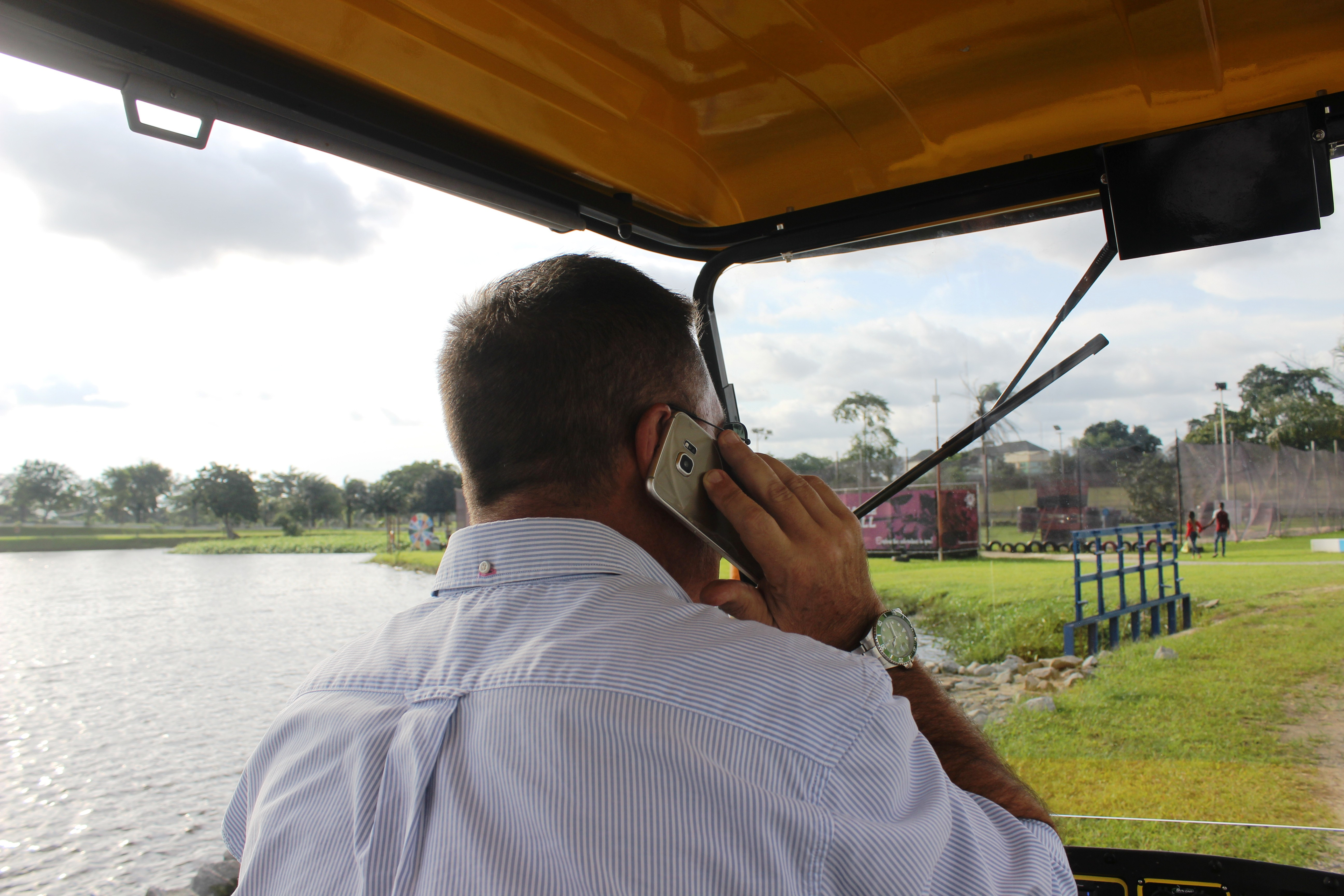 Port Harcourt Pleasure Park - Taking a tour round the park with a cart